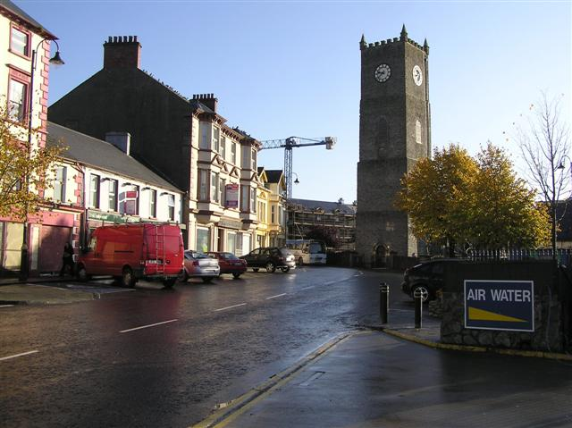 Raphoe Town Looking east. In the background is the Church of St Eunan Cathedral; it is the combined Diocese of Derry and Raphoe. It recently featured in a programme called "Lesser Spotted Ulster" presented by Joe Mahon, on Ulster Television